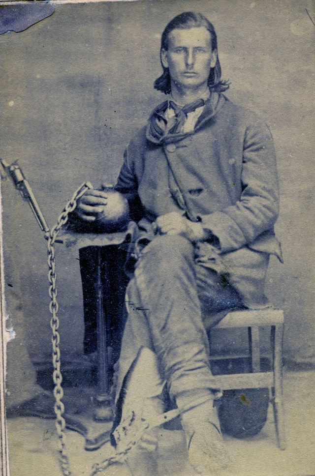 John Nichols prior to his execution in Jefferson City Missouri October 30, 1863, Wilson’s Creek National Battlefield; WICR 30211. Note: This photograph of John Nichols was taken while he was a prisoner; he is shown seated with leg irons attached to a ball and chain. The leg of a guard and a revolver are visible on left side of photo; it is inscribed “John Nichols. Executed at Jefferson City Mo. Oct. 30th 1863” on the bottom. Written on the back are details of his attempted escape, wounding, confinement and execution.